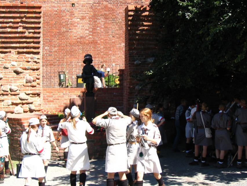 Polish girl guides by the Monument to Small Partisan in Warsaw